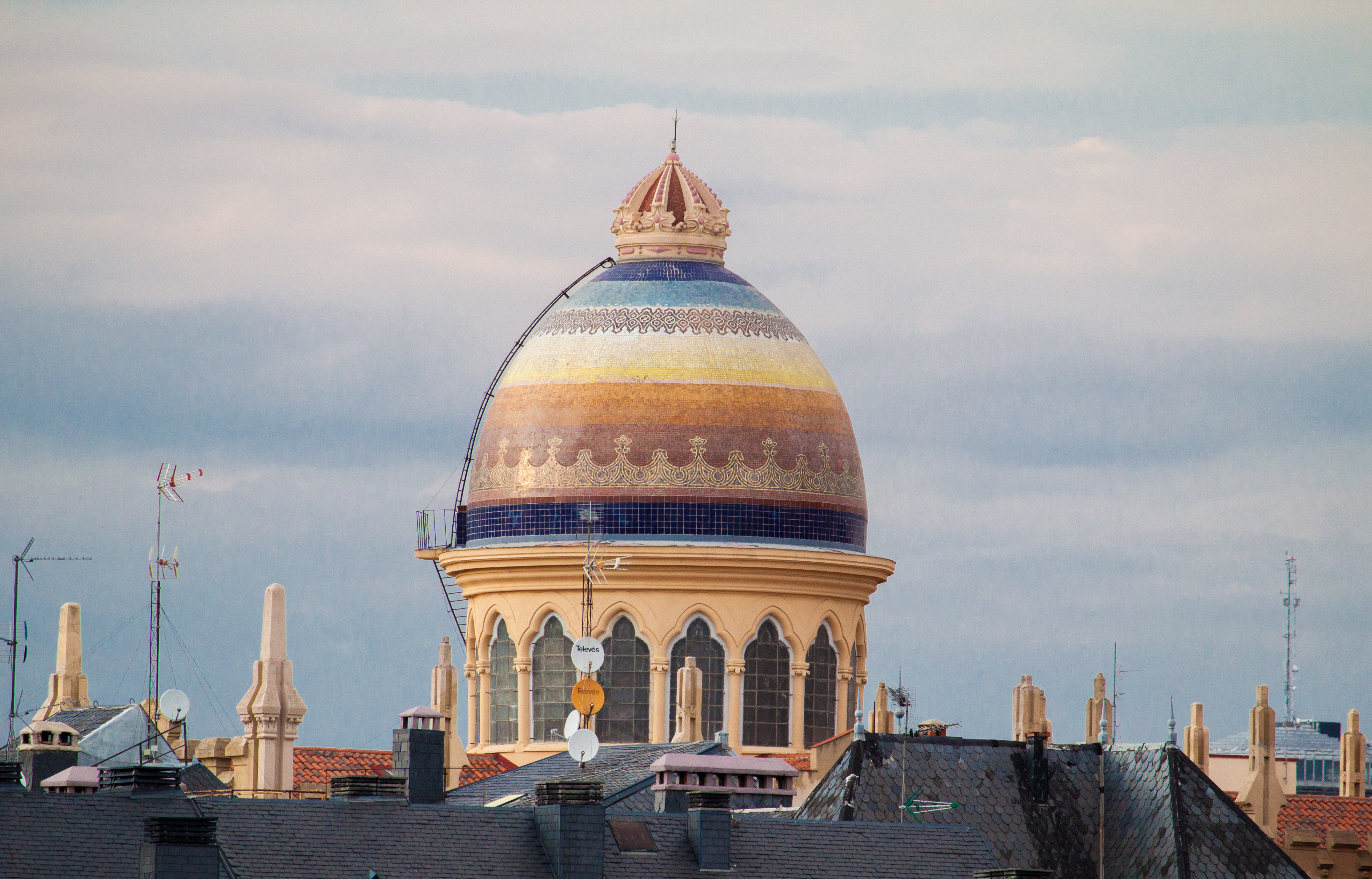 Dome of Iglesia de Santa Teresa y San José, seen from Calle Bailén near Jardines de Sabatini